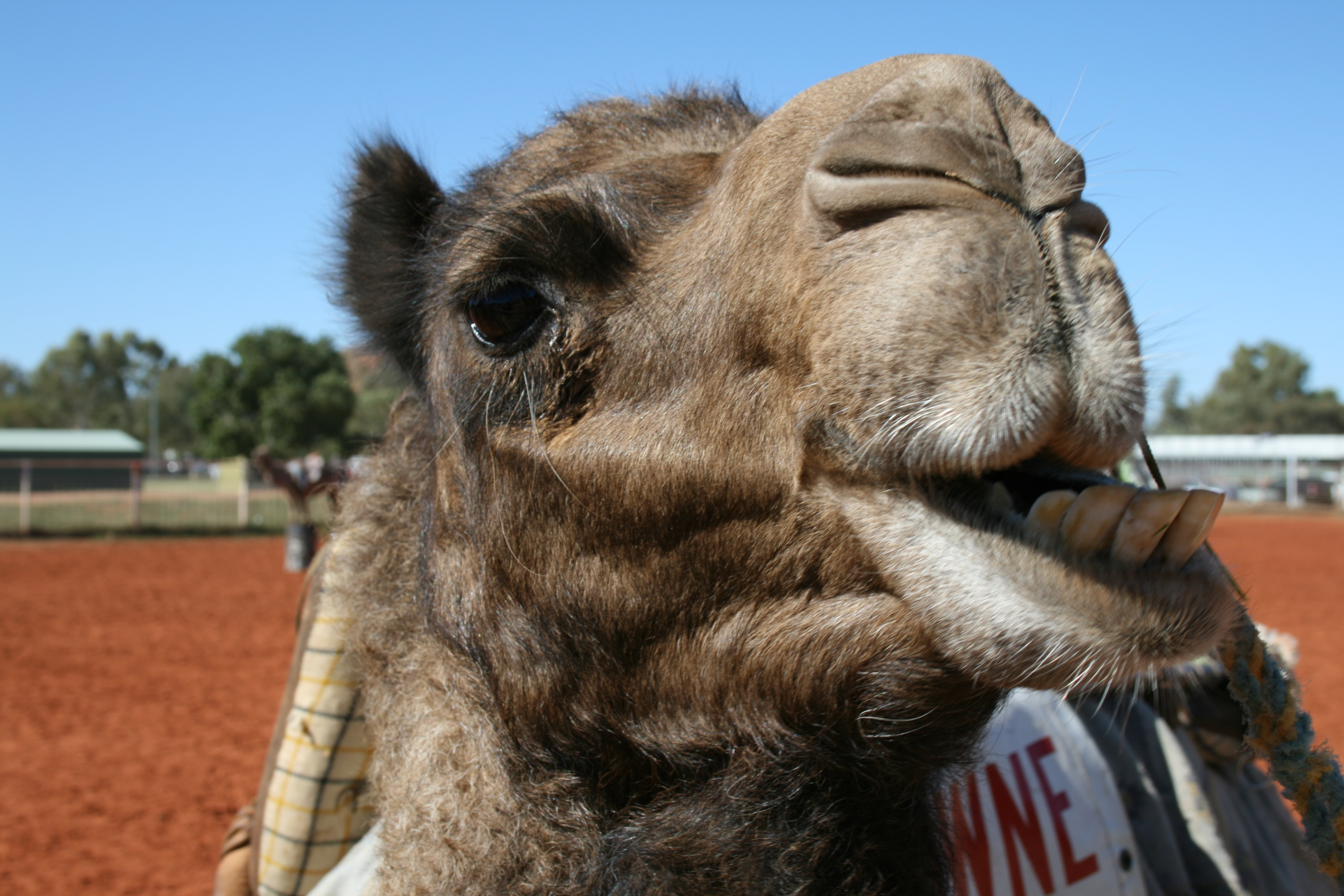 Camel face, chewing. During the Alice Springs 2009 Camel Cup.